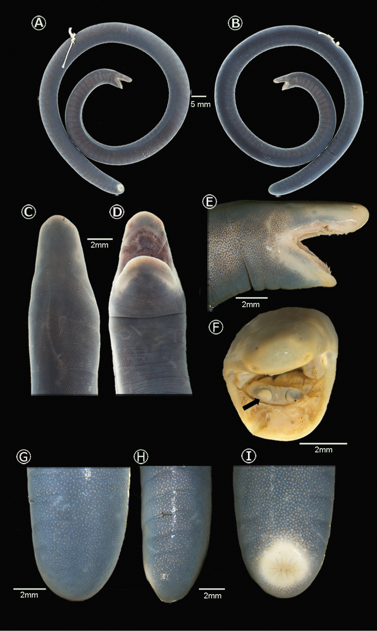 Holotype of Caecilia pulchraserrana sp. nov. Adult female, IAvH-Am-1548. A, B Lateral views of body C dorsal D ventral E lateral views of head F Frontal view of cephalic region, the arrow indicates the narial plug G dorsal and H lateral views of caudal region I ventral view of vent.